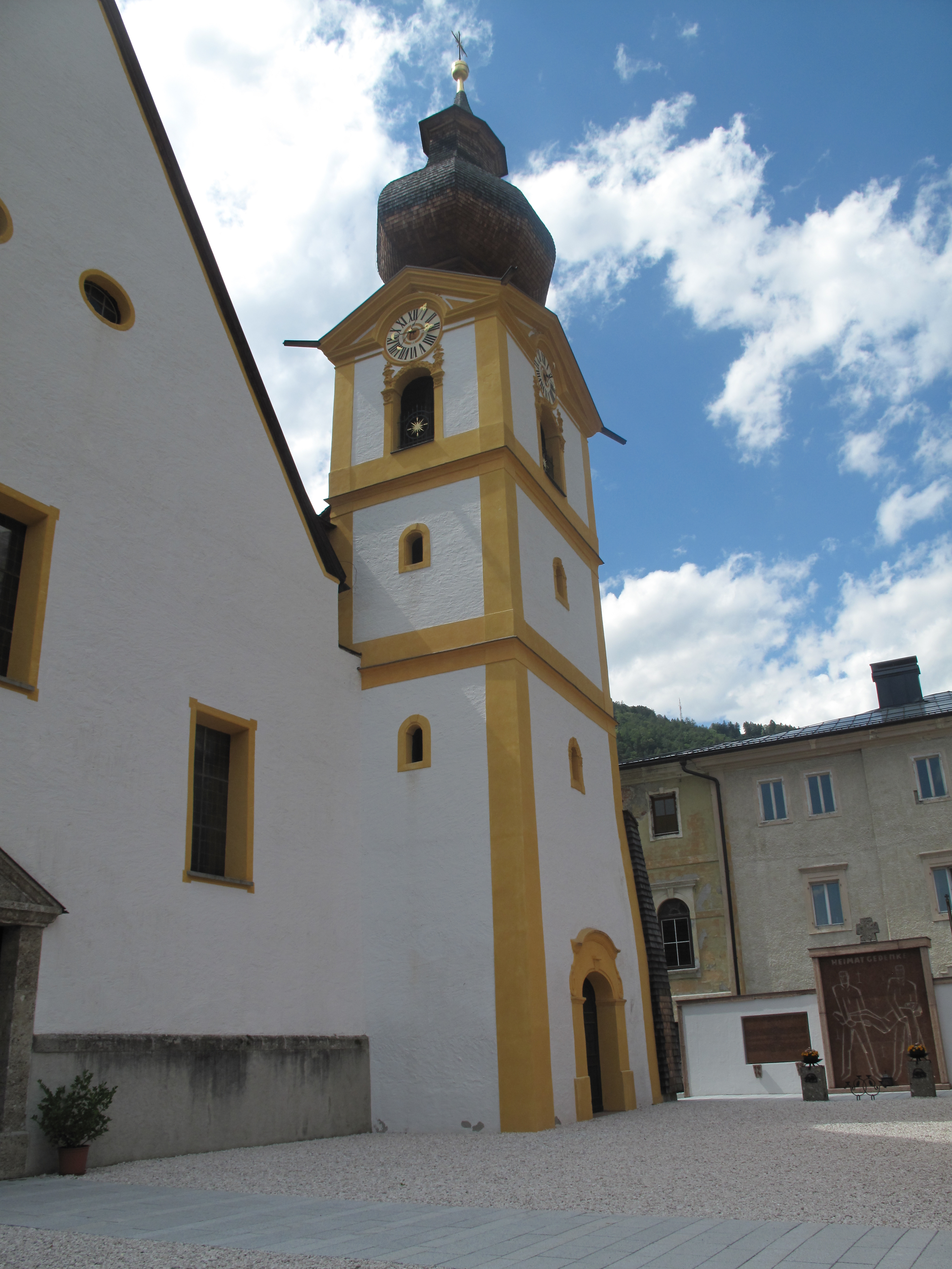 Werfen, church